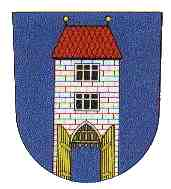 Coat of arms of Hradčany.